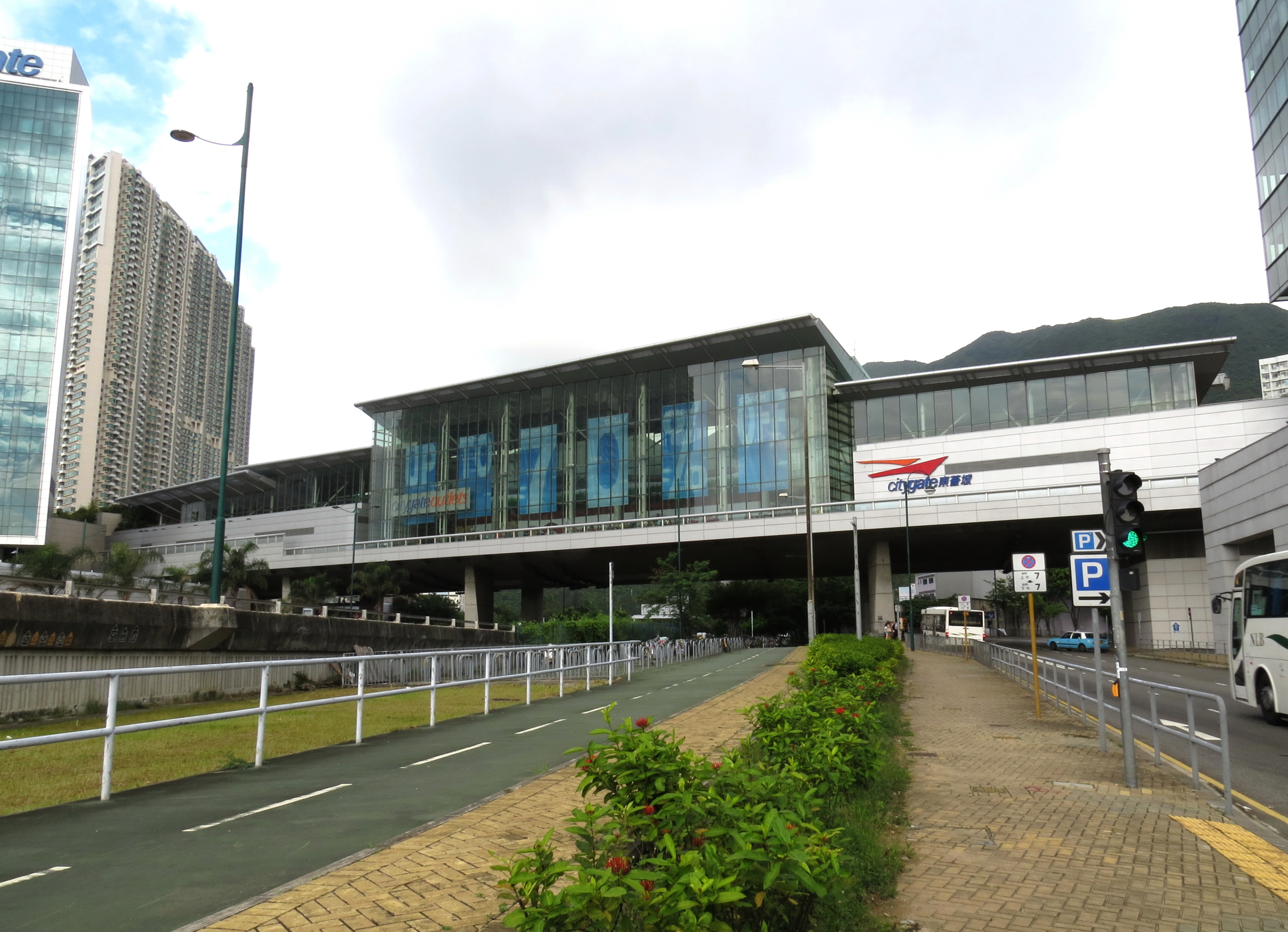 Citygate, Tung Chung, Lantau Island, Hong Kong.